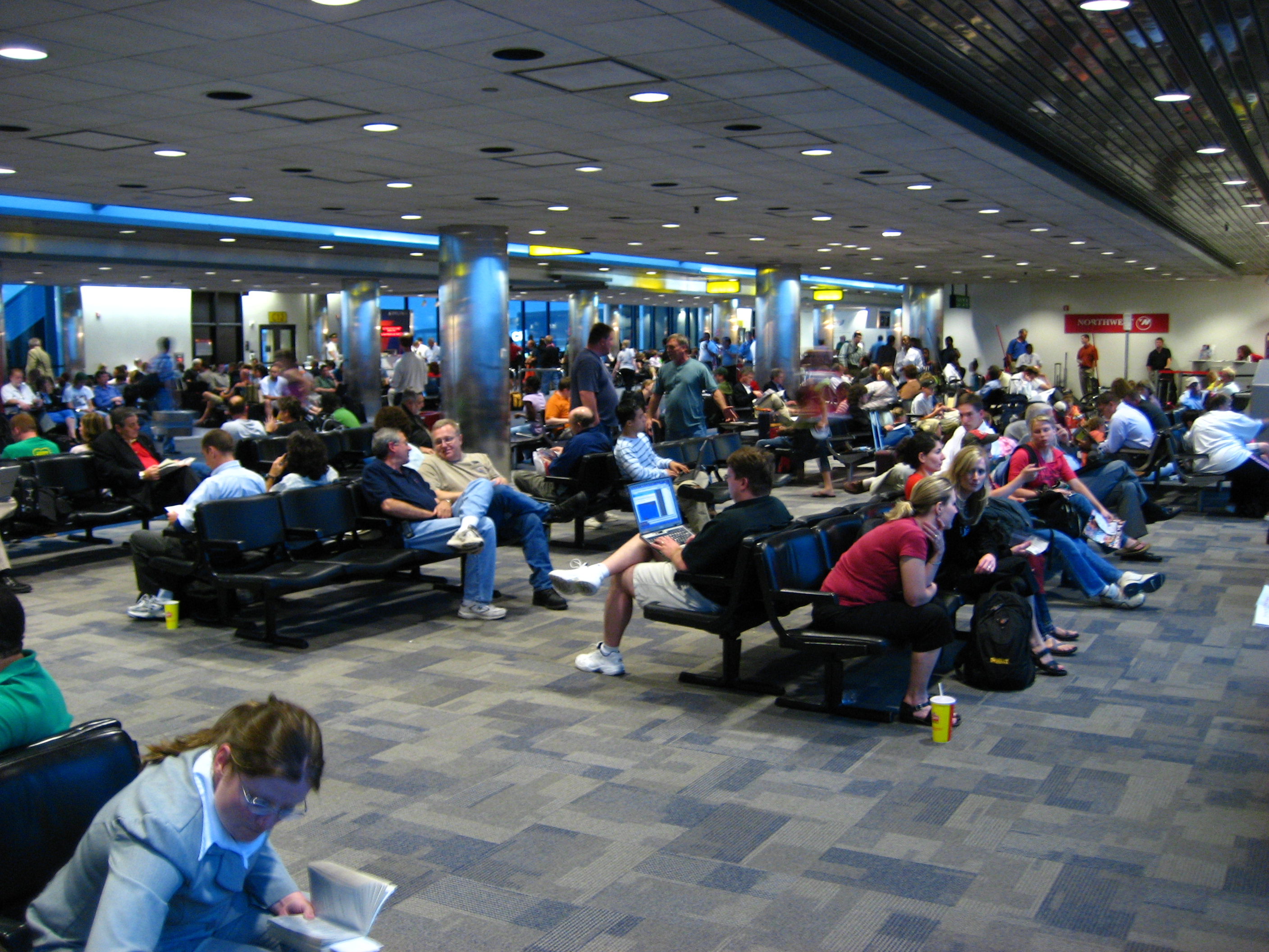 At this point, the airport was in full ground halt due to tornadic activity.